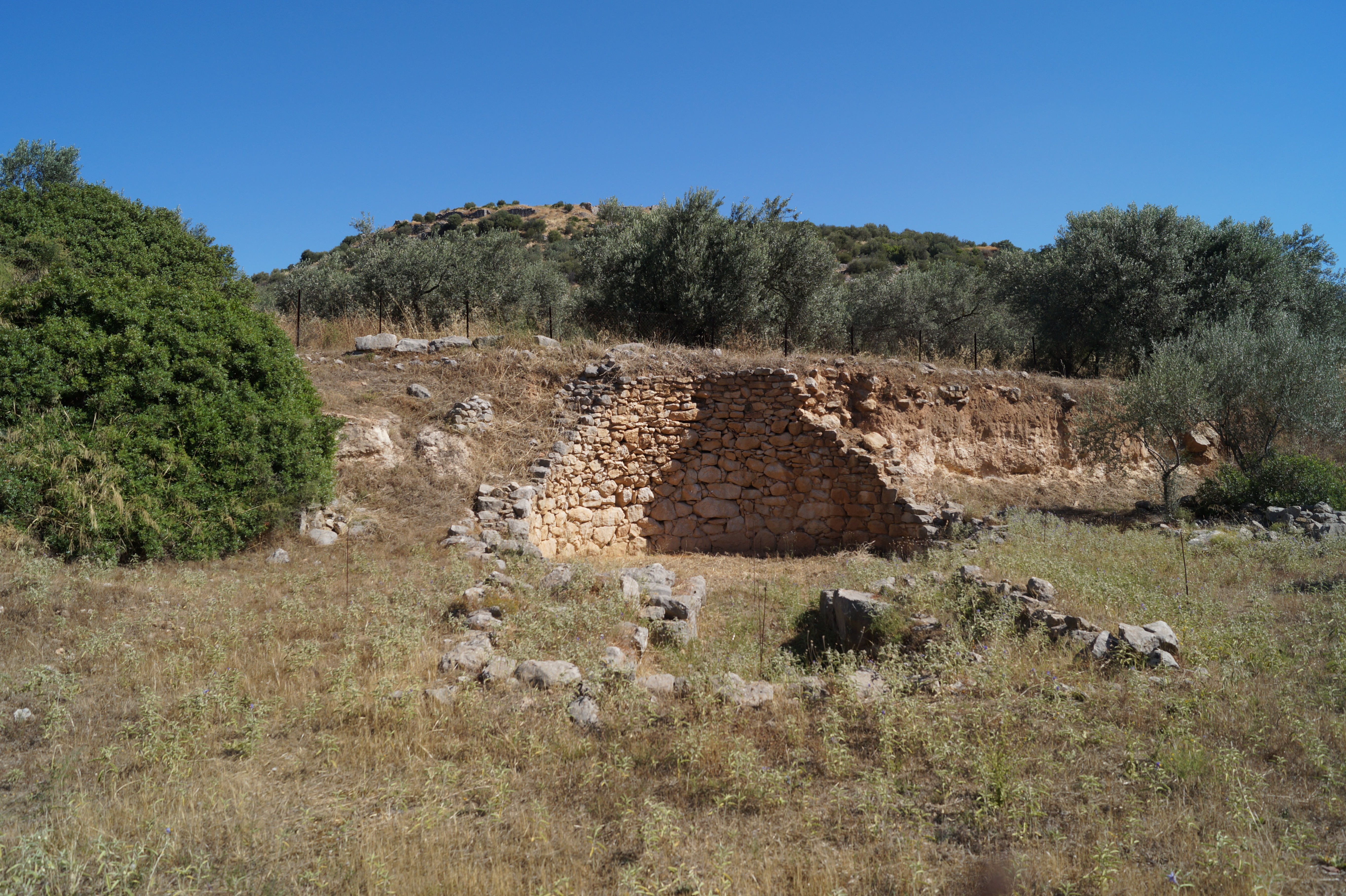 Arkadiko, Argolis, Greece: Kazarma Tholos Tomb. In the background there is the acropolis of Kazarma.